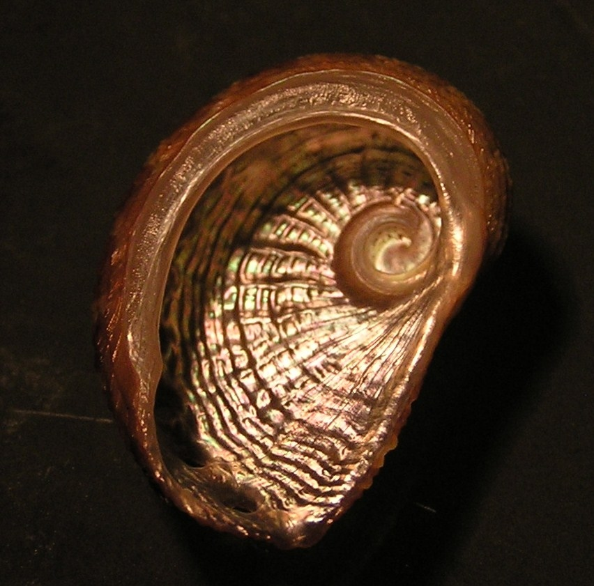 Haliotis clathrata Reeve, 1846; family Haliotidae; Mozambique